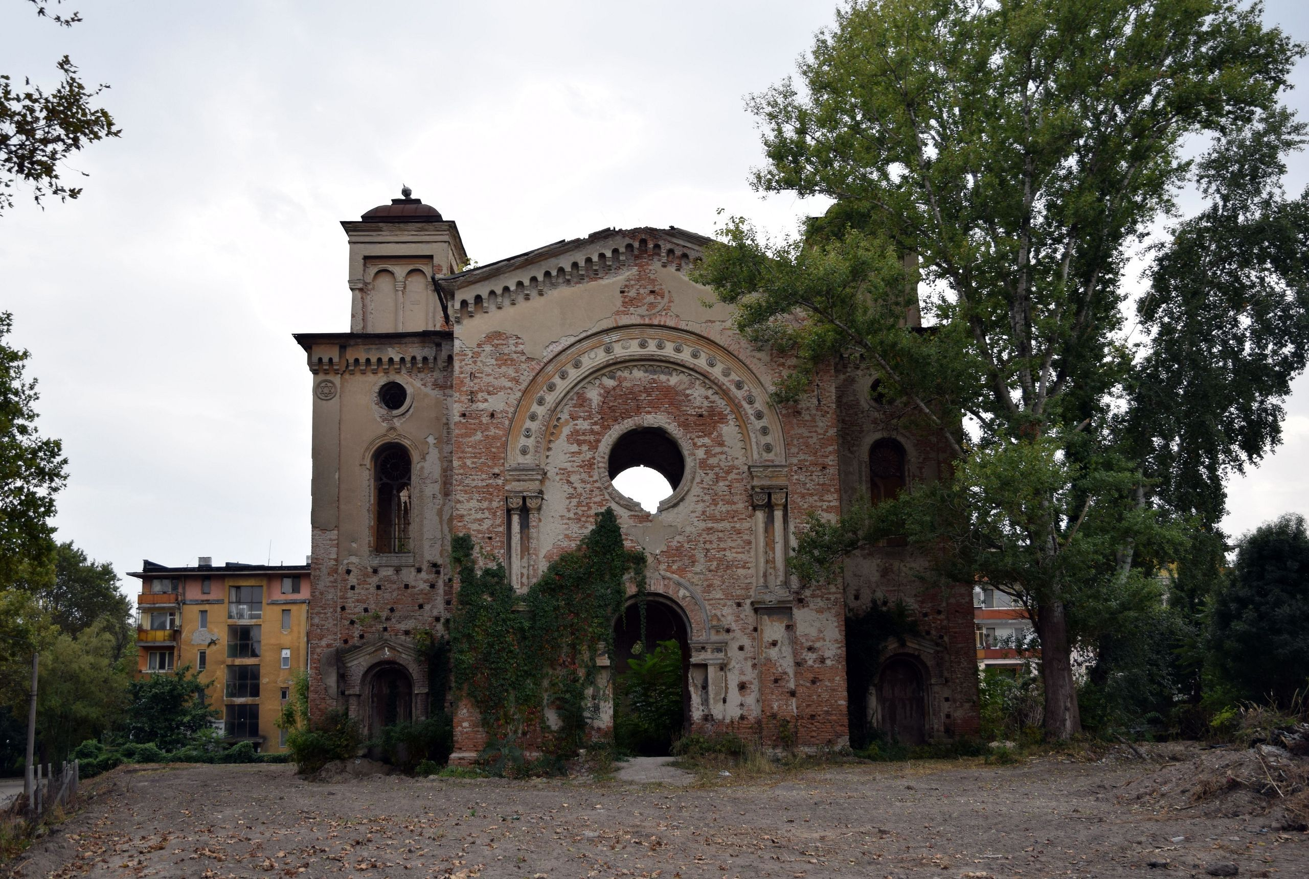 Vidin synagogue